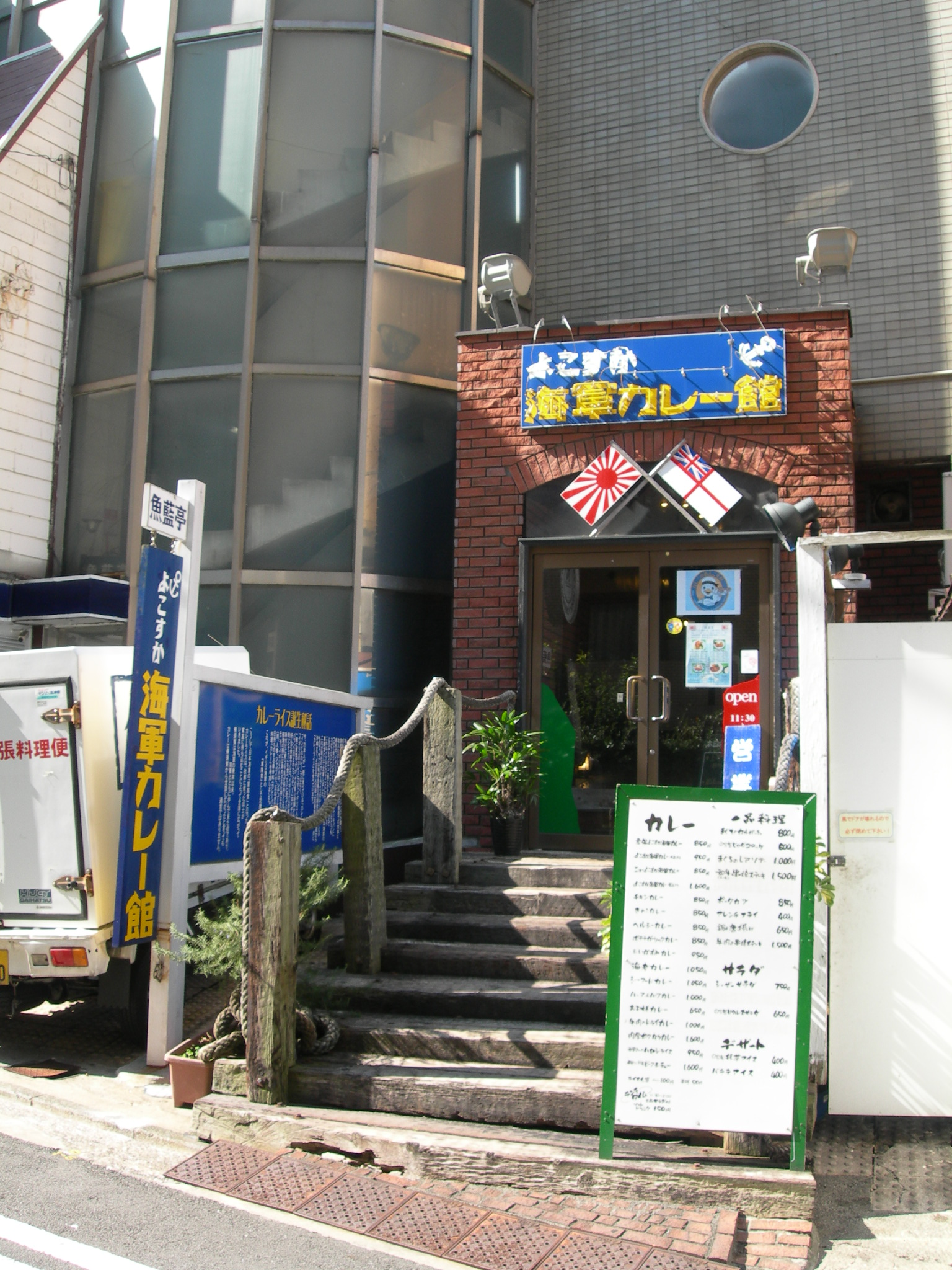 "Yokosuka Navy Curry House" , Yokosuka, Kanagawa. Taken in 2011.